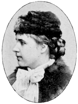 Image scanned from the book "Svenskt Porträttgalleri XX - Arkitekter, Bildhuggare, Målare m.fl. " ("Swedish Portrait Gallery XX - Architects, Sculptors, Painters, ") published 1901